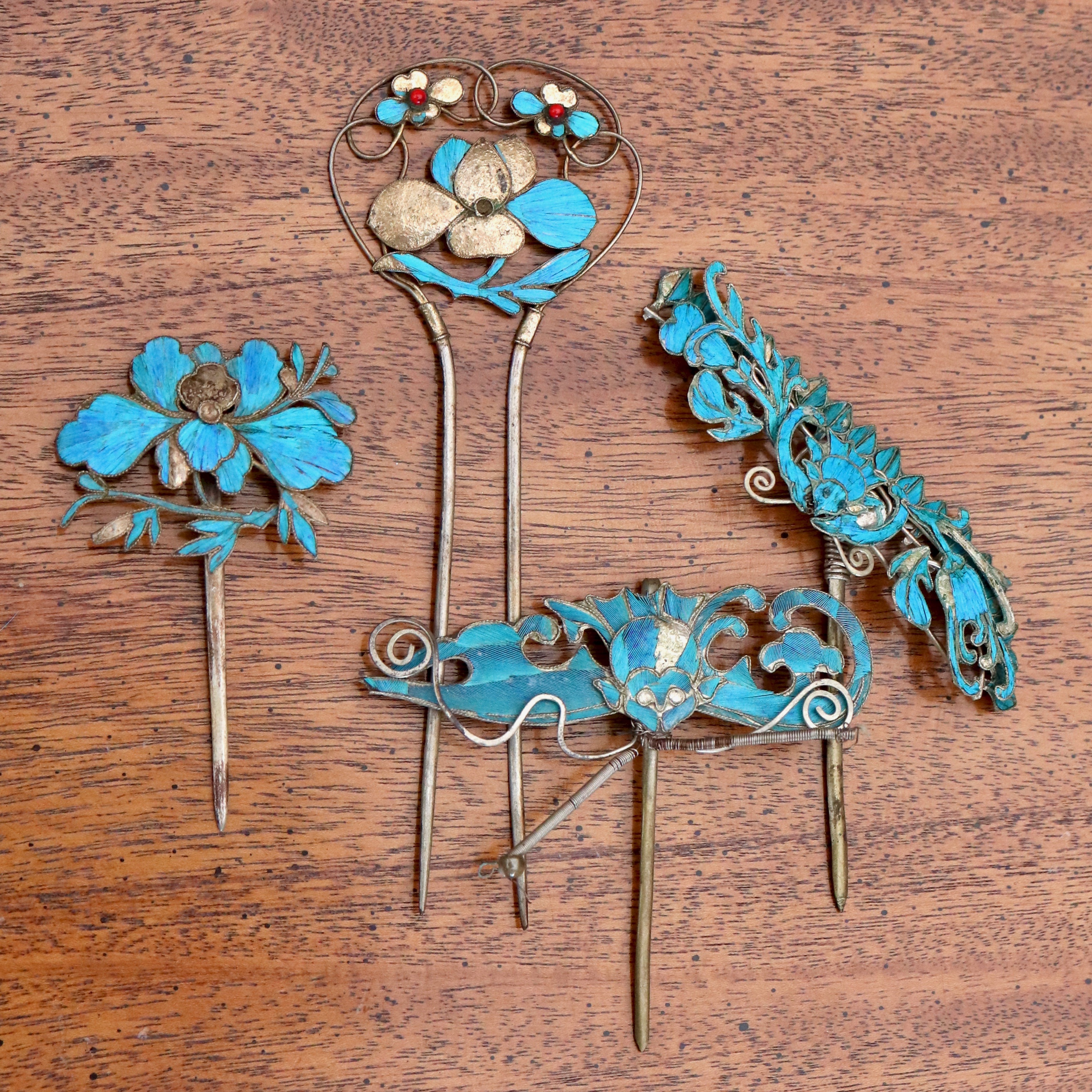 19th century antique Tian-tsui (Kingfisher feather) hair pins. Of Chinese origin, in private collection.